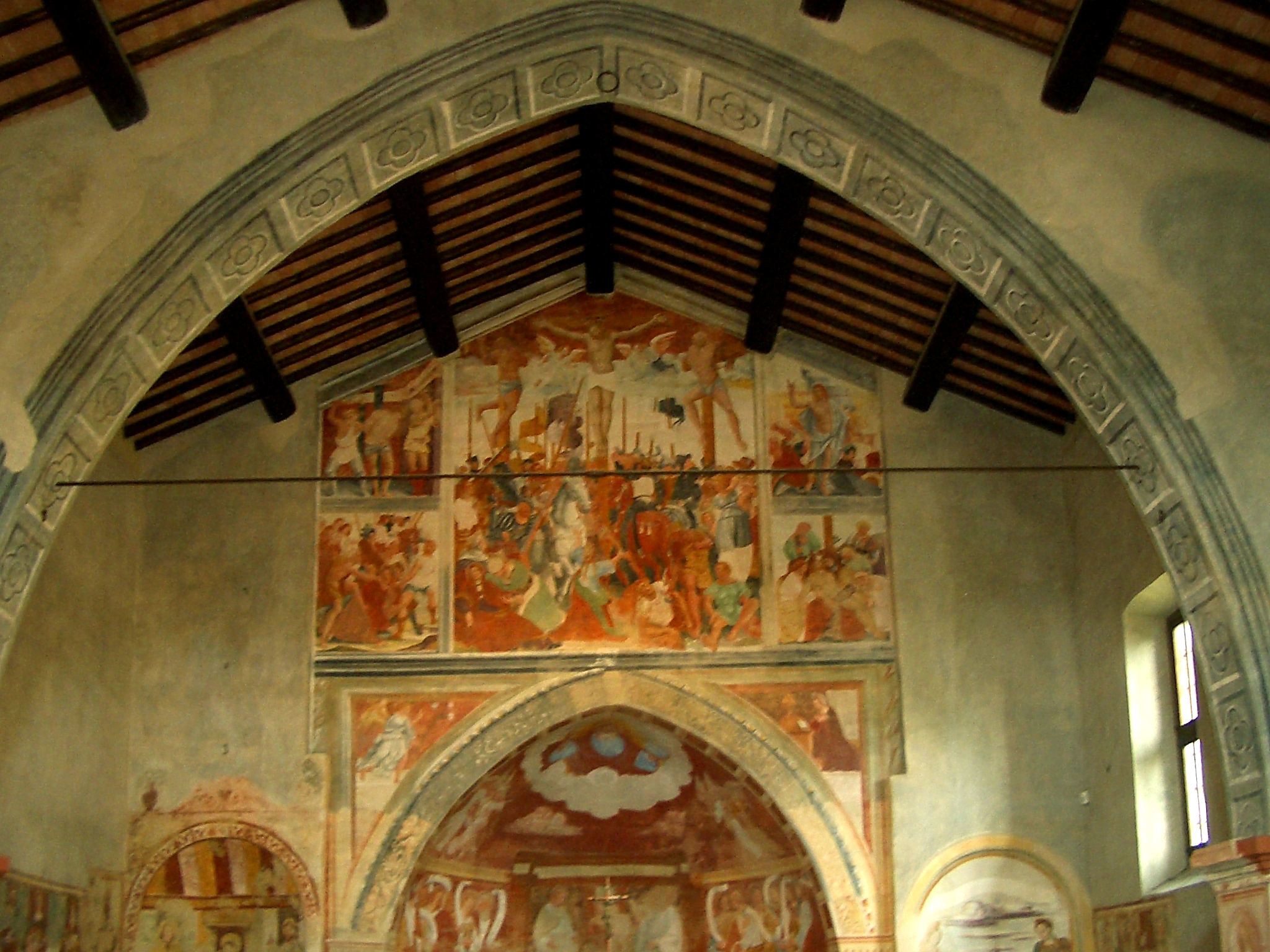 Bellinzago Novarese - Cavagliano, Chiesa di San Vito, the interior of the church San Vito a Cavagliano Native nameChiesa di San VitoLocationBellinzago Novarese, Piedmont, ItalyCoordinates45° 32′ 01.9″ N, 8° 38′ 07.48″ E Established15th century date QS:P,+1450-00-00T00:00:00Z/7Authority control : Q3672186 institution QS:P195,Q3672186